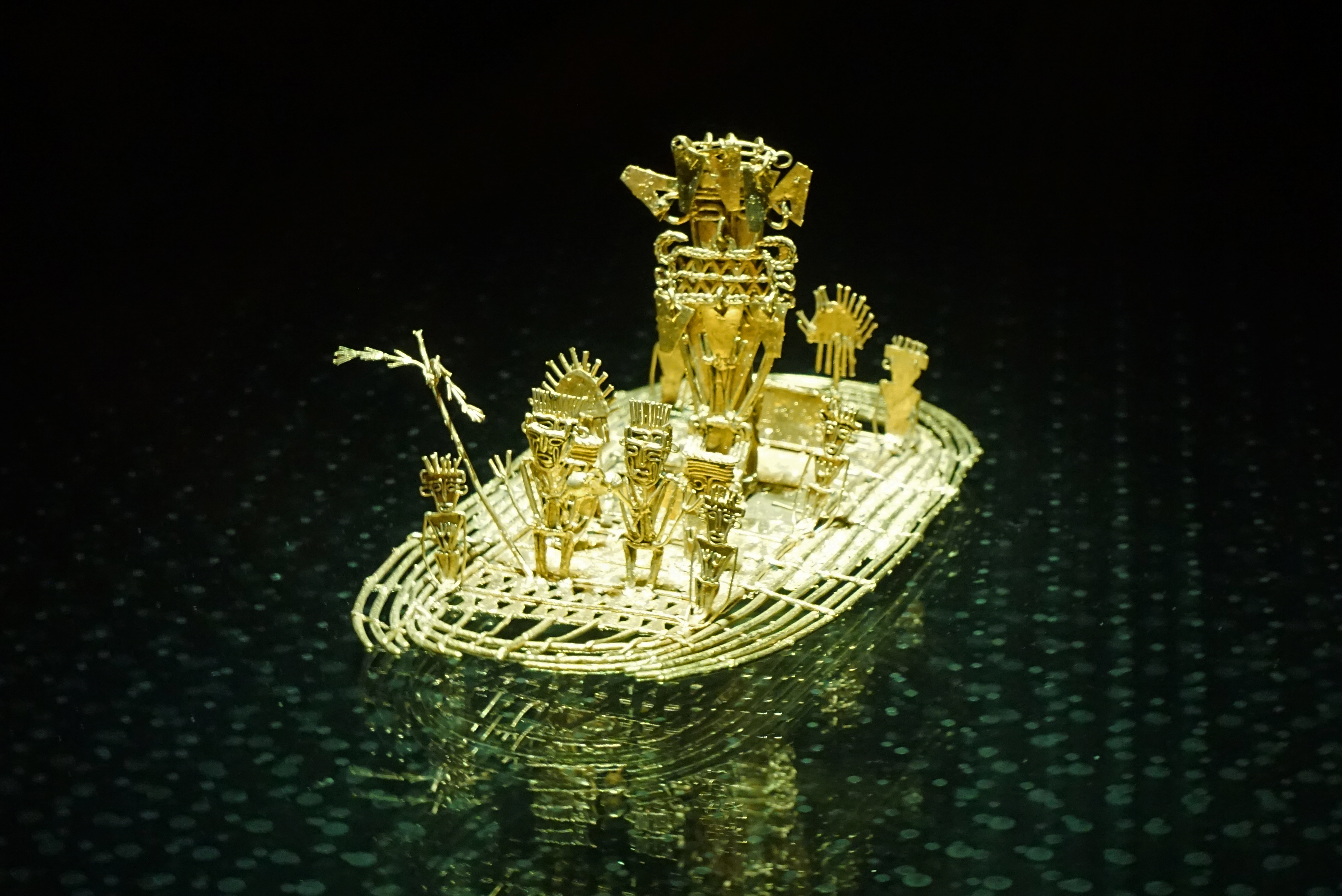 The Muisca Raft is the symbol of El Dorado legend and the most legendary piece exhibited at the Gold Museum of Bogotá, Colombia. This raft made of gold was found in Pasca, Cundinamarca. The raft represents the ceremony that used to take place in Lake Guatavita where the zipa cover his body in gold dust and drop gold and emerald offering into the lake.